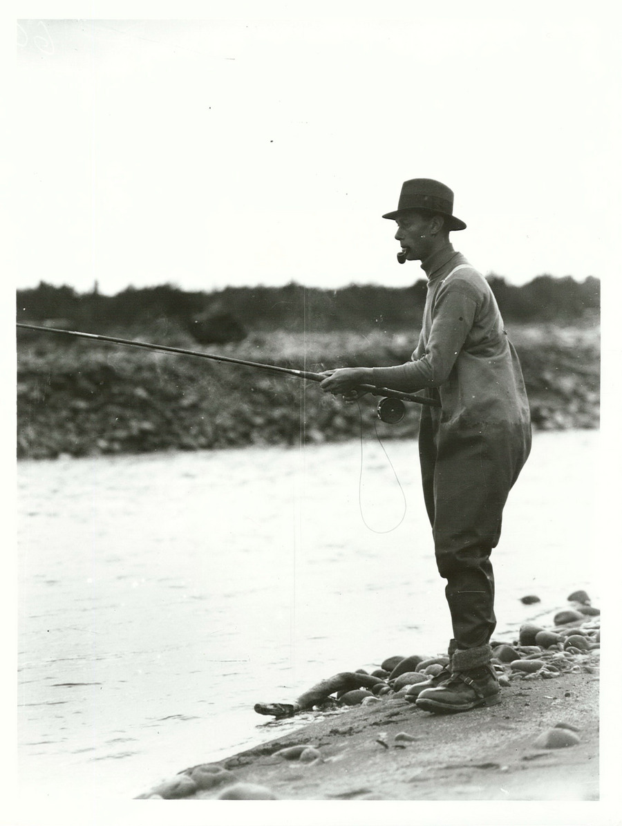 Tongariro River, Wellington Province Publicity 1927 Royal Tour Archives New Zealand Reference: AAQT 6539 W3537 30 / A439